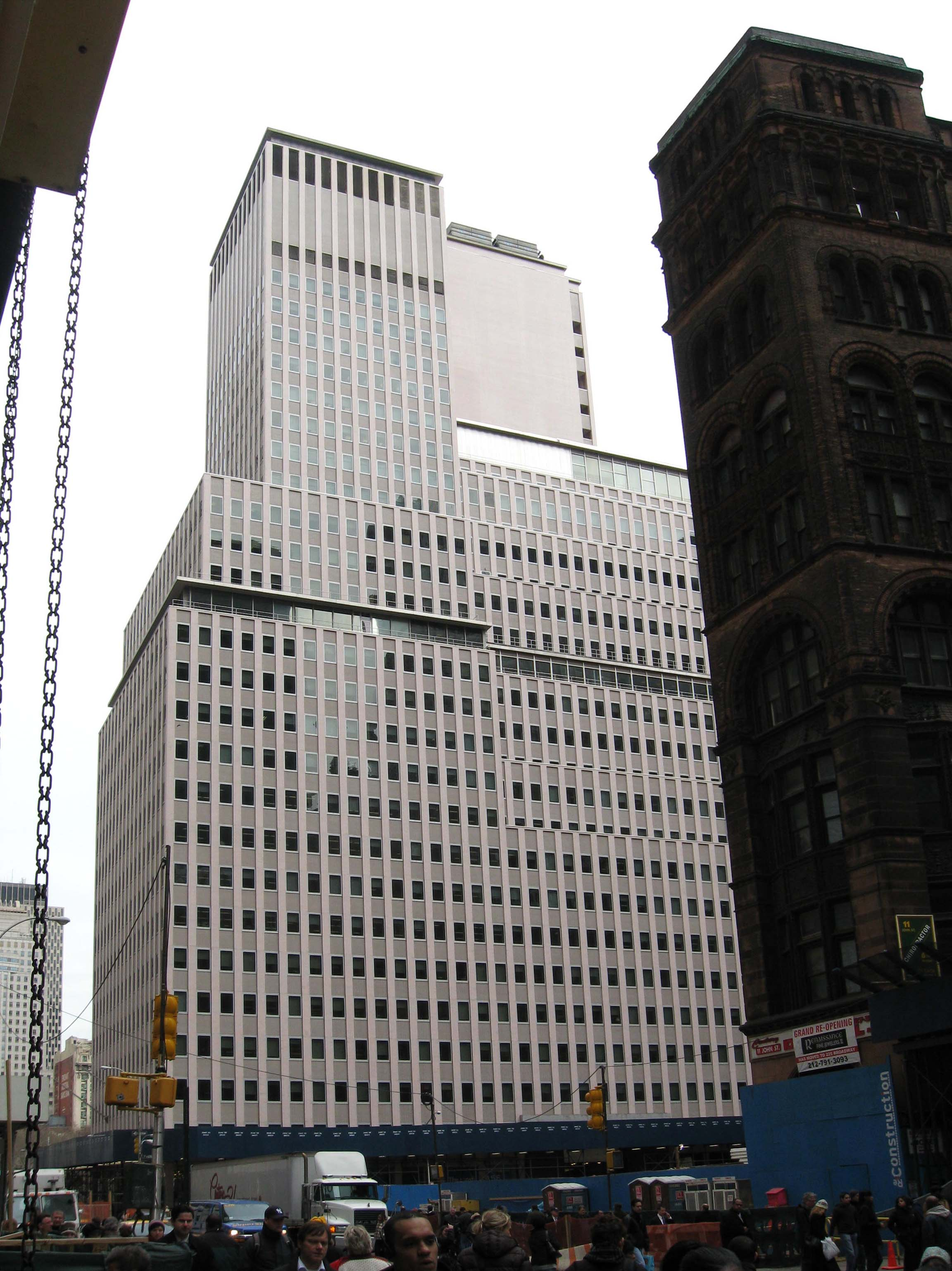 222 Broadway at Fulton Street, headquarters of Western Electric until 1984, about Noon on an early spring day, looking northeast past the Corbin Building (right) and over the site of the future Fulton Street Transit Center, from a corner a block south and on the west side of Broadway